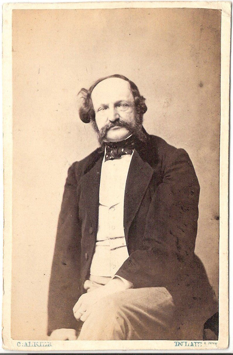 Eduard von Strahl (1817-1884), district cout justice and art collector in Krain - carte de visite: photographer and place unreadable, taken about 1860.